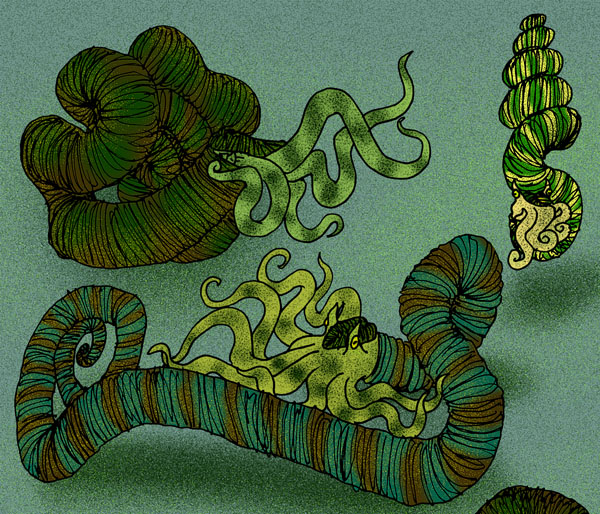 Reconstructions of the Late Cretaceous heteromorph ammonites Nipponites mirabilis (ball-shaped), N. bacchus (unwound shape), and Yezoceras nodosum (cone-shape)